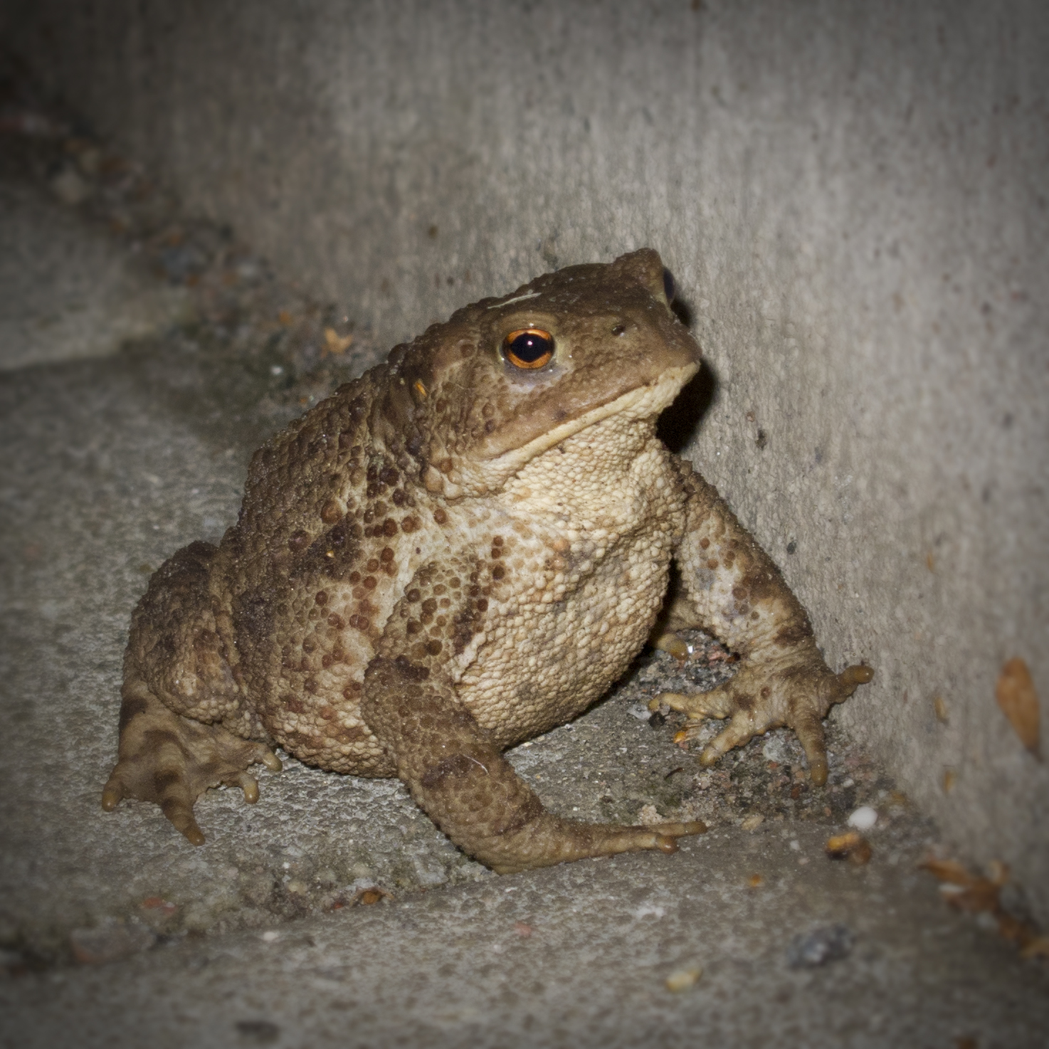 Common toad